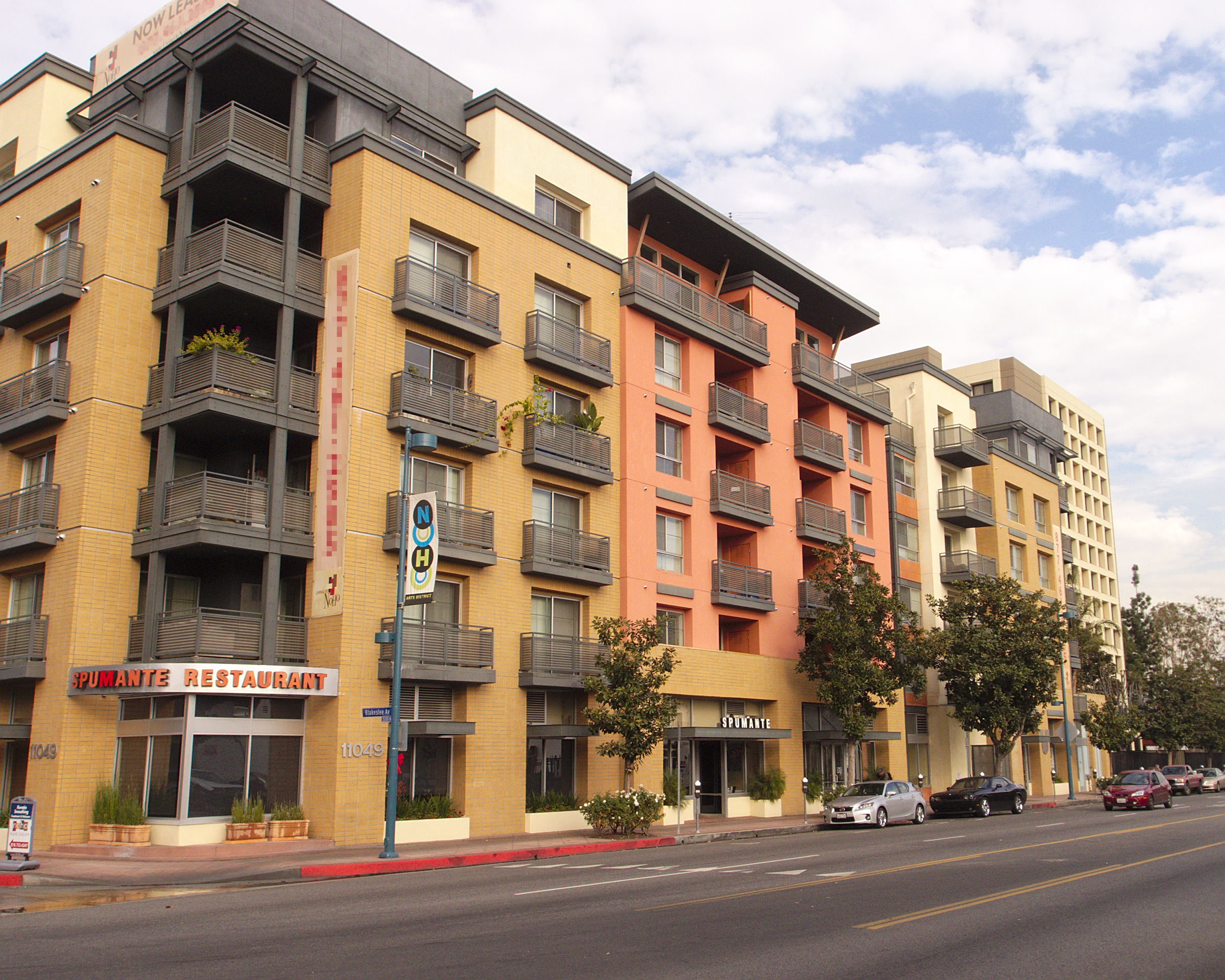 Typical high-density property development in North Hollywood from the "arts district" era.